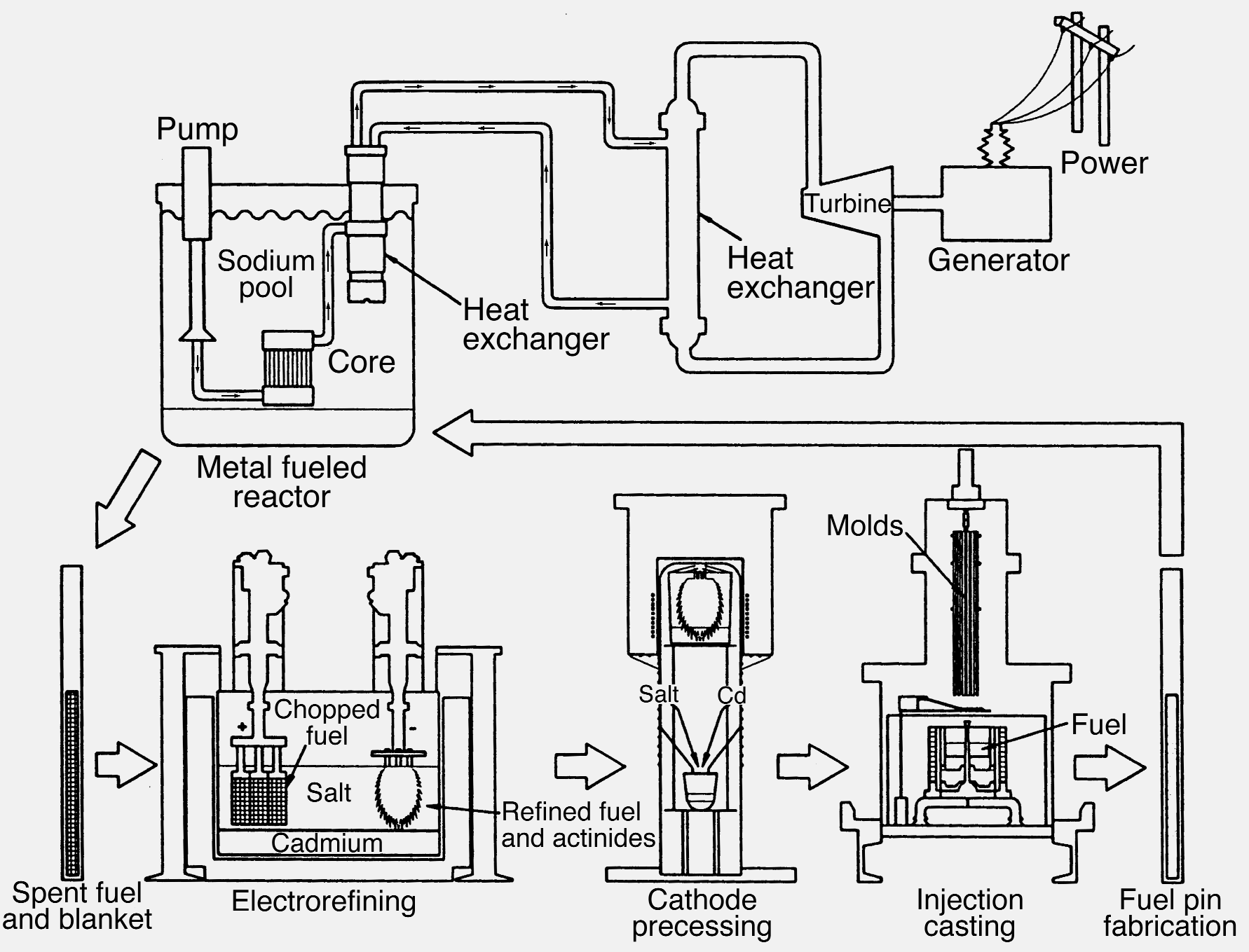 Integral Fast Reactor concept. Fuel makes electricity and when spent, goes next door to be recycled as new fuel pins.